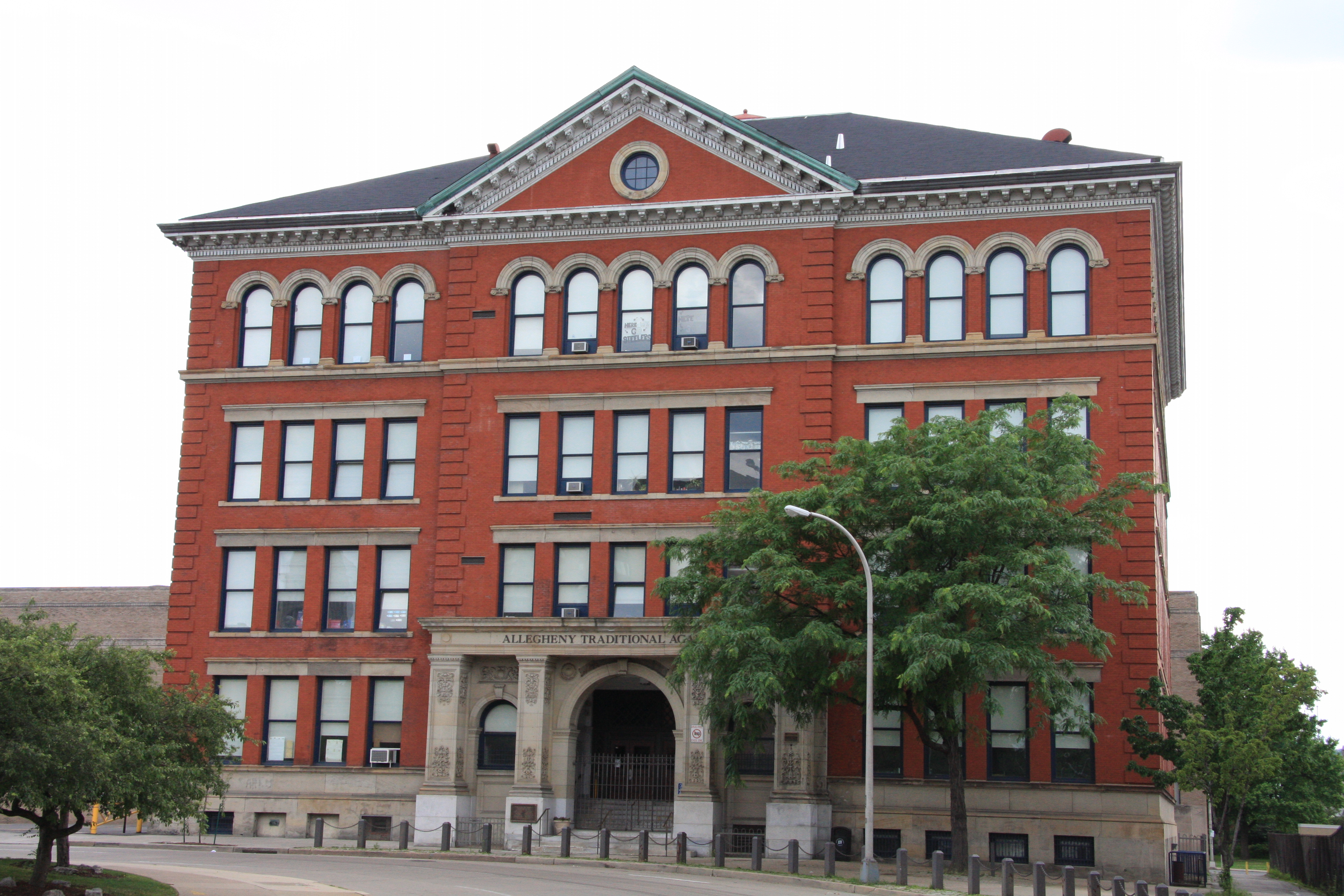 Commons front of the older part of the Allegheny High School, which is listed on the National Register of Historic Places in Pittsburgh, Pennsylvania, United States.